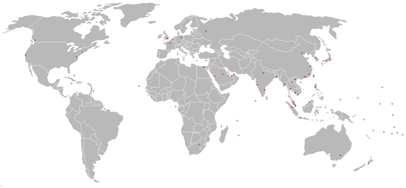 Cities with a diplomatic mission of the Republic of Singapore